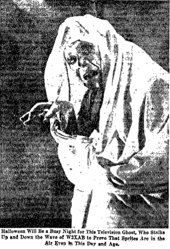 A picture of George Kelting in a early television show, "The Television Ghost". This is one of the few surviving documents of the show.